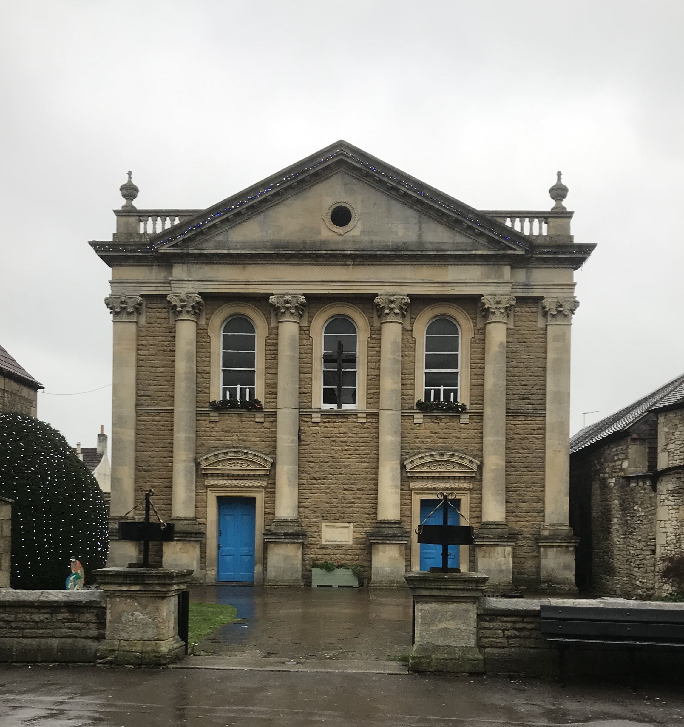 Melksham United Church, with Christmas lights on tree